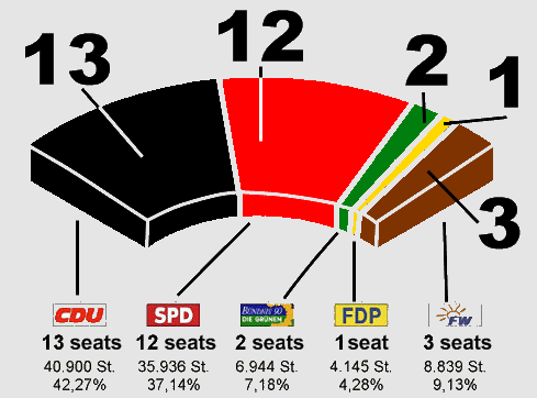 Election - Niddatal, Germany in 2006.